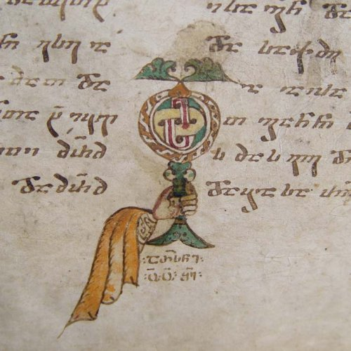 Illuminated Gospels manuscript from Martvili, Georgia.